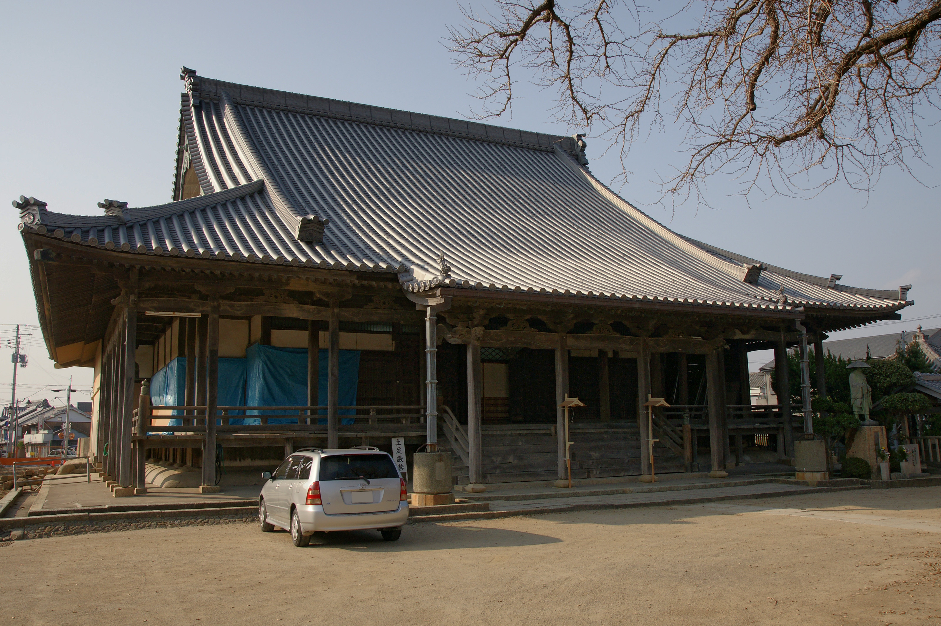 Honganji Hidaka-betsuin, Gobo, Wakayama prefecture, Japan